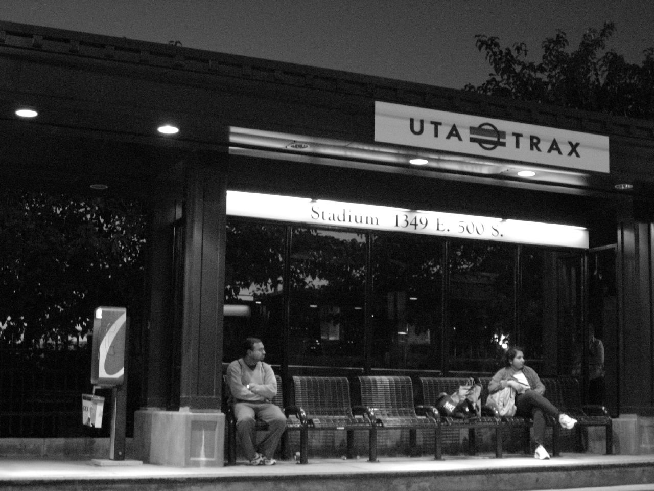 A monochrome shot of the south side of the Stadium UTA TRAX tram station.